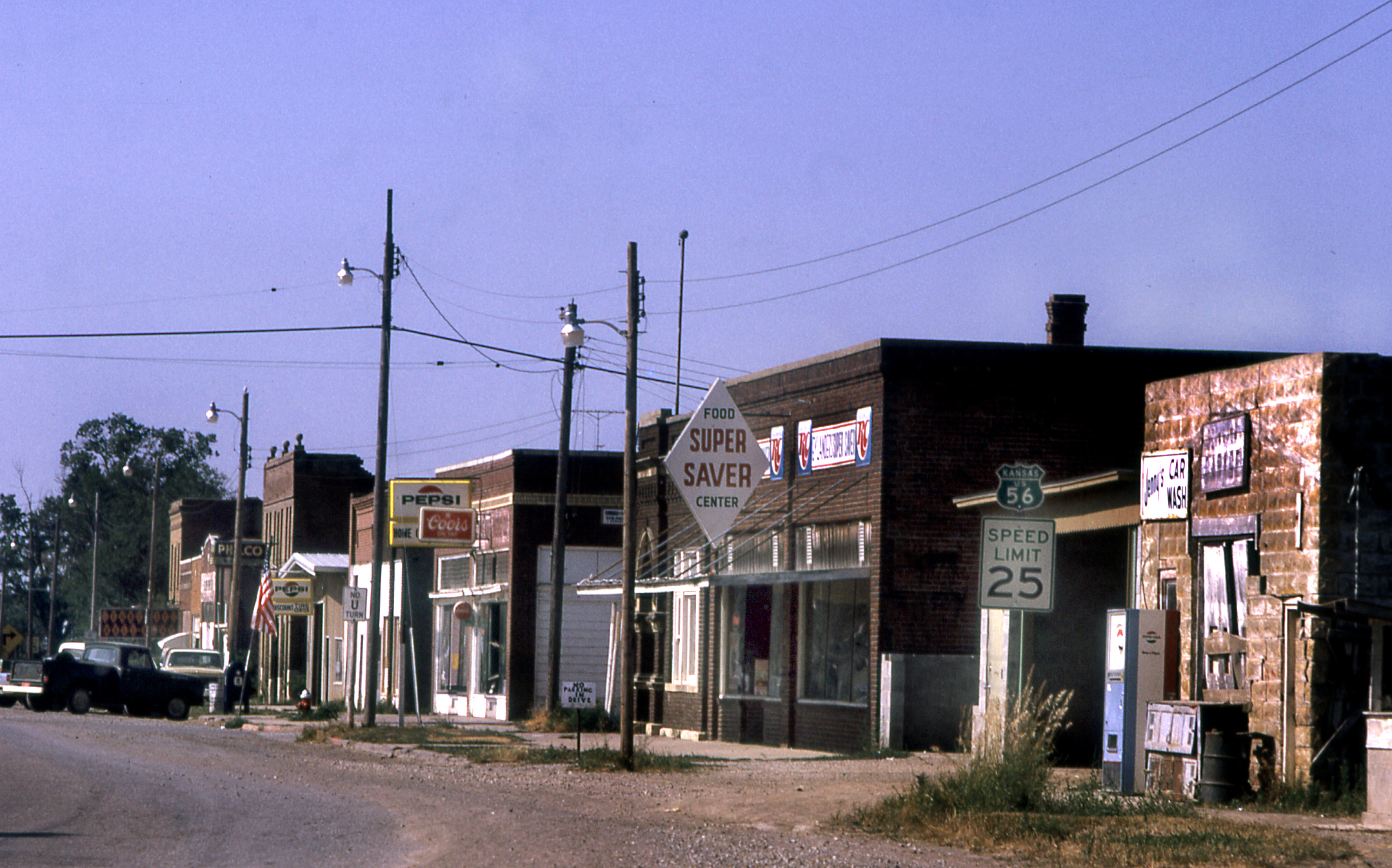 A little town on KS56, in 1974 Scranton, KS